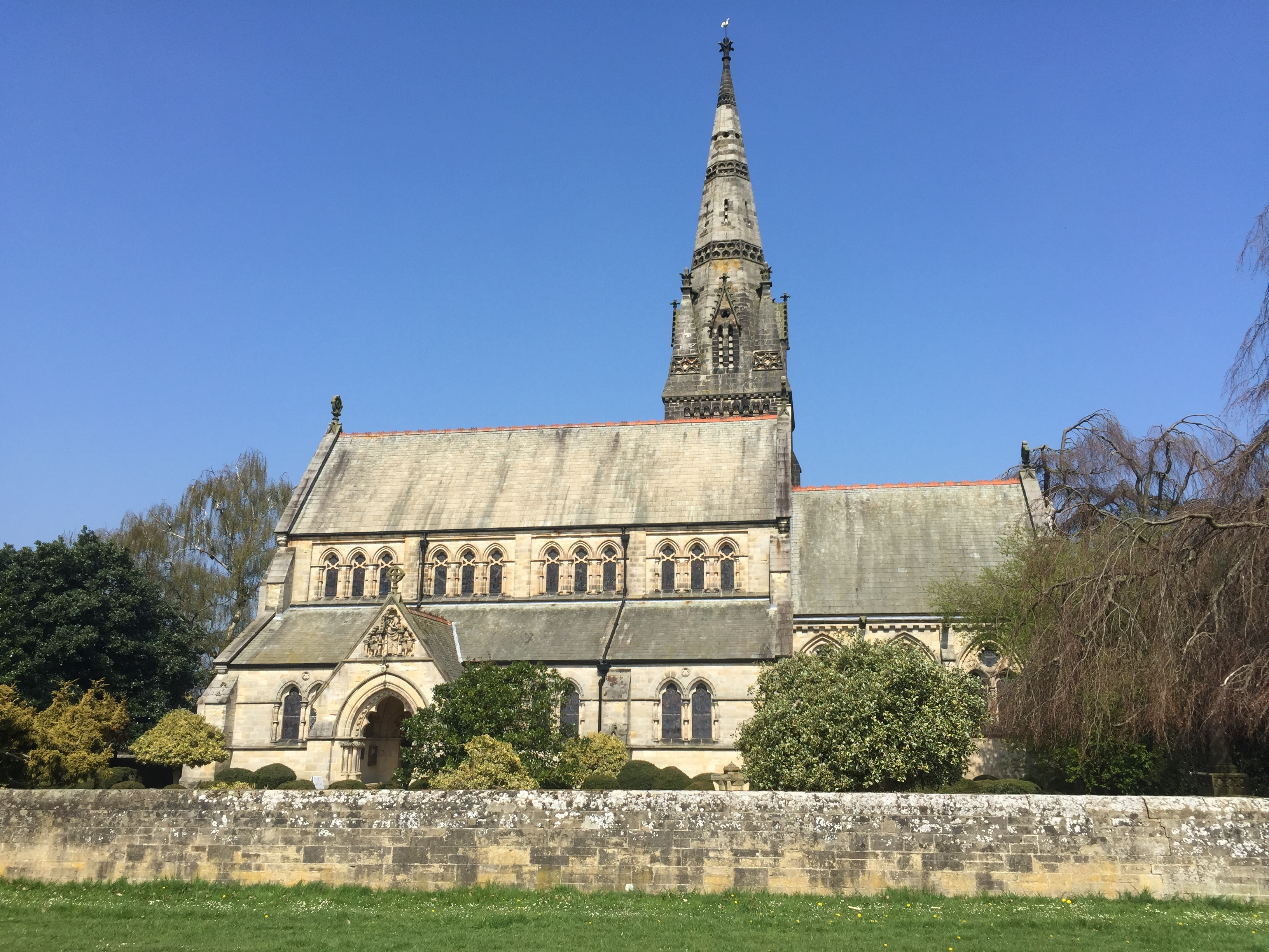 Church of Christ the Consoler, Skelton-on-Ure, North Yorkshire, UK. By William Burges. A Grade I listed building, the church is now redundant and in the care of the Churches Conservation Trust.